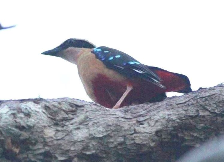 African pitta (P. a. longipennis) in its southern breeding range, at Mpigwe camp at Catapu, central Mozambique